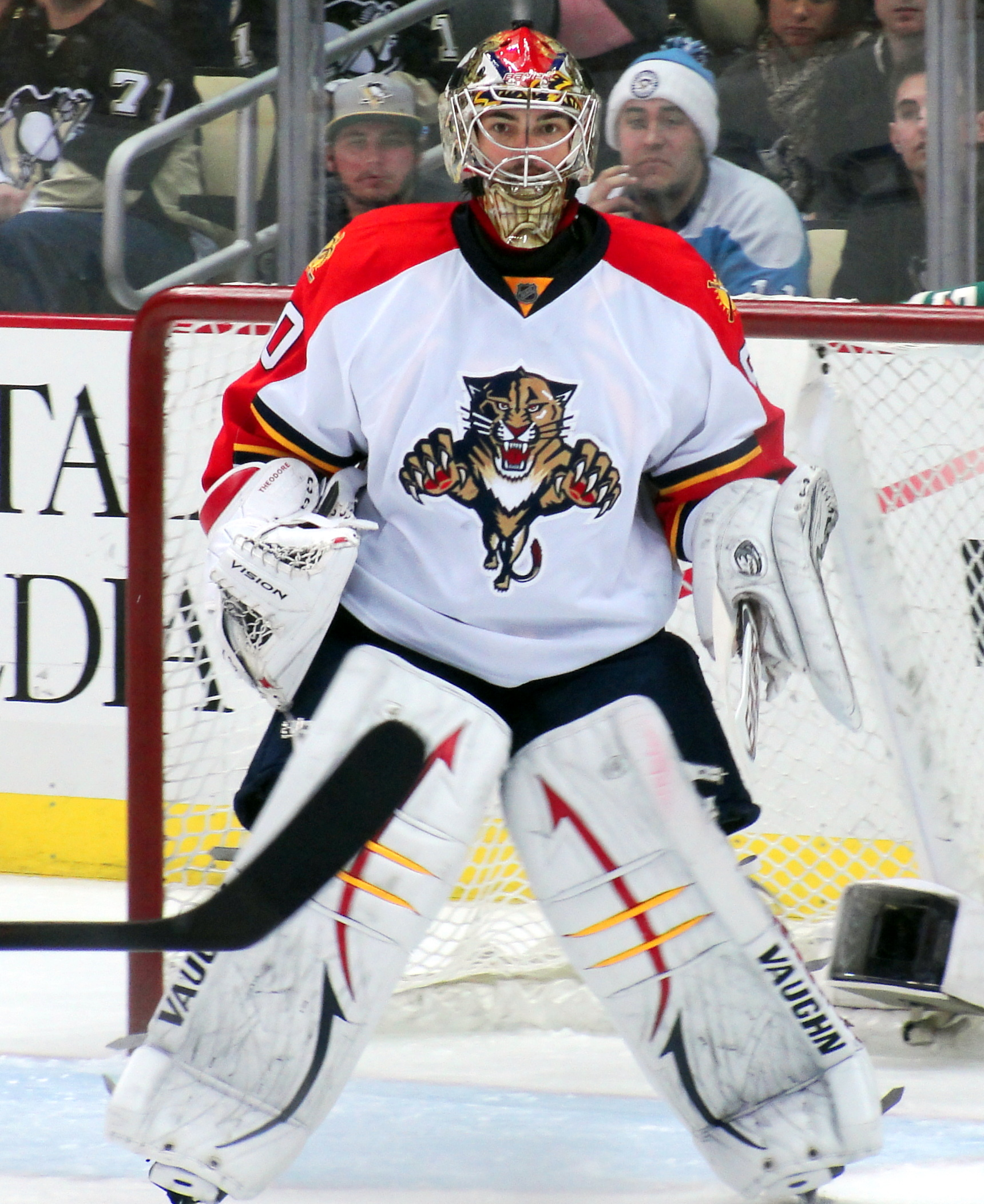 Florida Panthers goaltender Jose Theodore during a game against the Pittsburgh Penguins, March 9, 2012 at Consol Energy Center in Pittsburgh, PA.